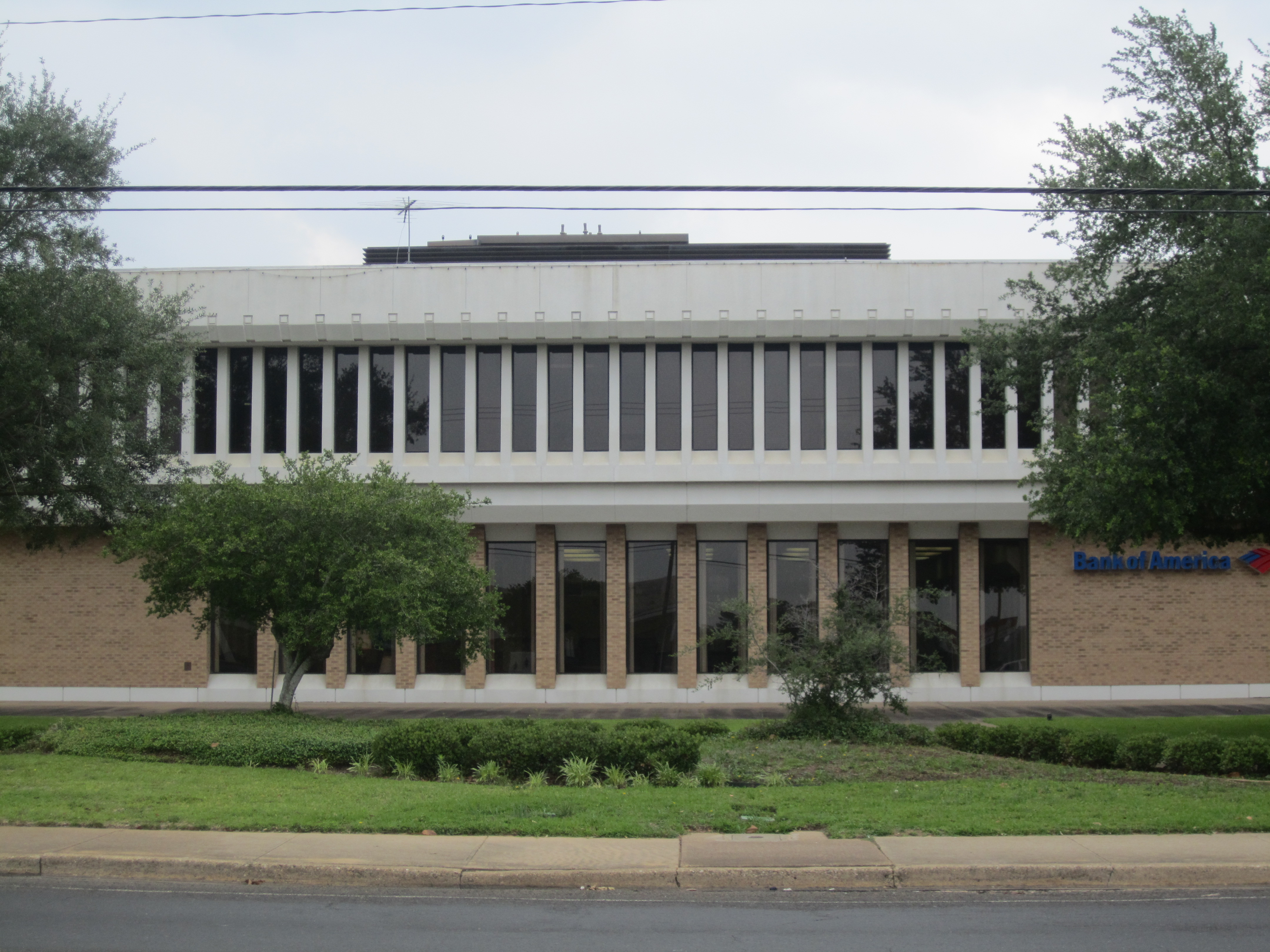 I took photo with Canon camera in Henderson, TX.